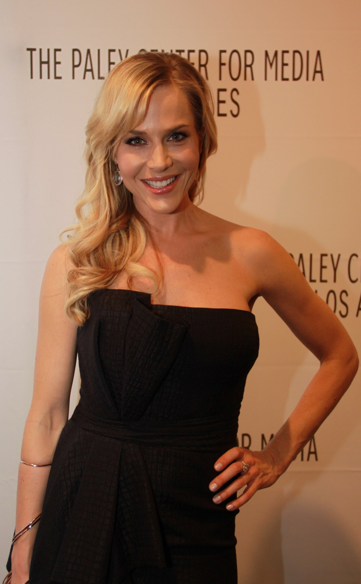 Julie Benz at PaleyFest2010's "Dexter" night at the Saban Theatre on March 4th, 2010.